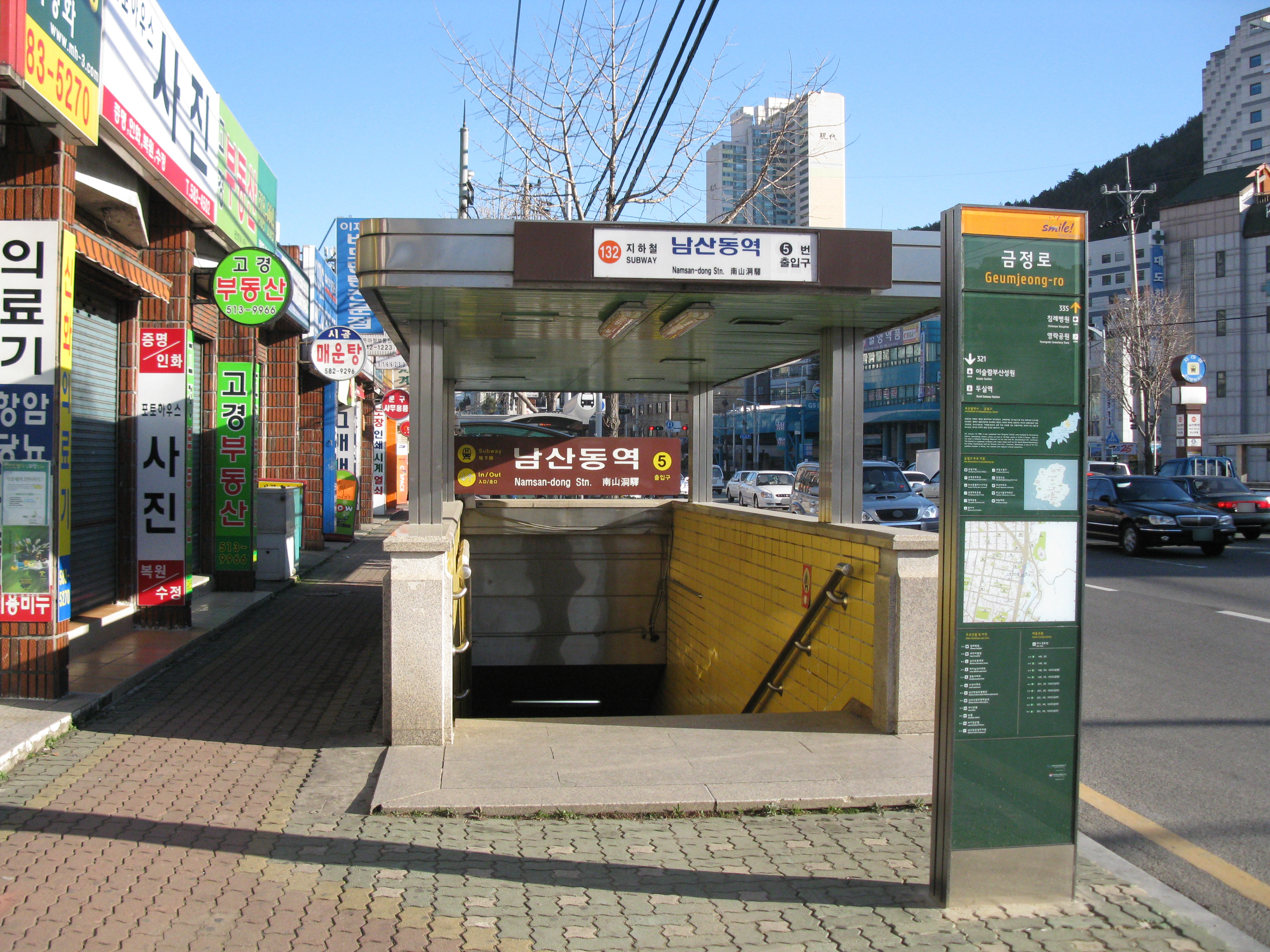 Namsan-dong Station no.5 entrance (Busan Subway Line 1)